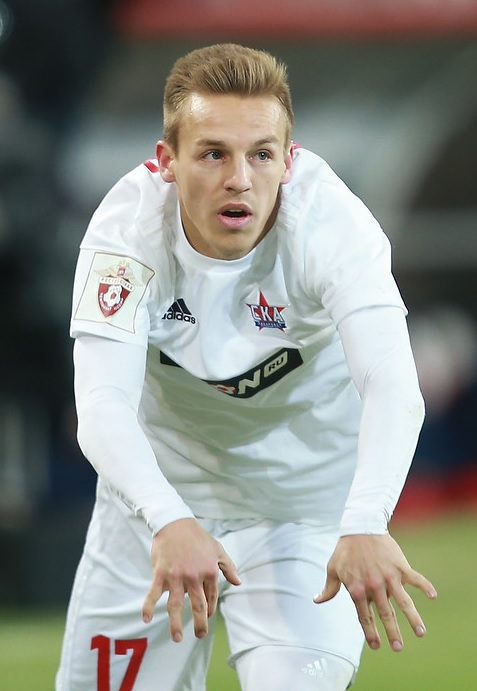 Dmitri Kabutov with FC SKA-Khabarovsk in a game against FC Spartak Moscow.